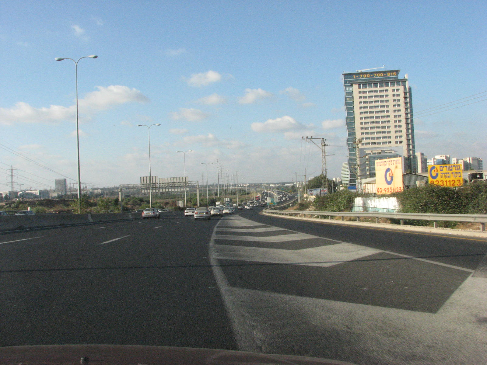 Highway 4 (Israel)